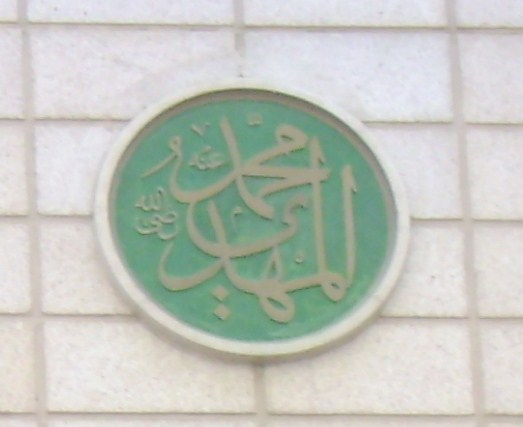 The name of the 12th Shiite Imam as it appears in calligraphy at the Prophet's mosque, Masjid Nabawai in Al-Madinah Am-Mownawrah, Saudi Arabia.